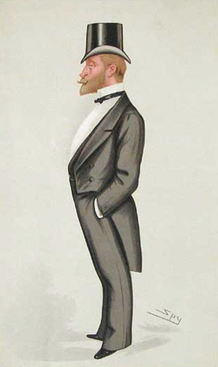 Caricature of Frederick Stephen Archibald Hanbury-Tracy, caption reads "gentle and liberal".